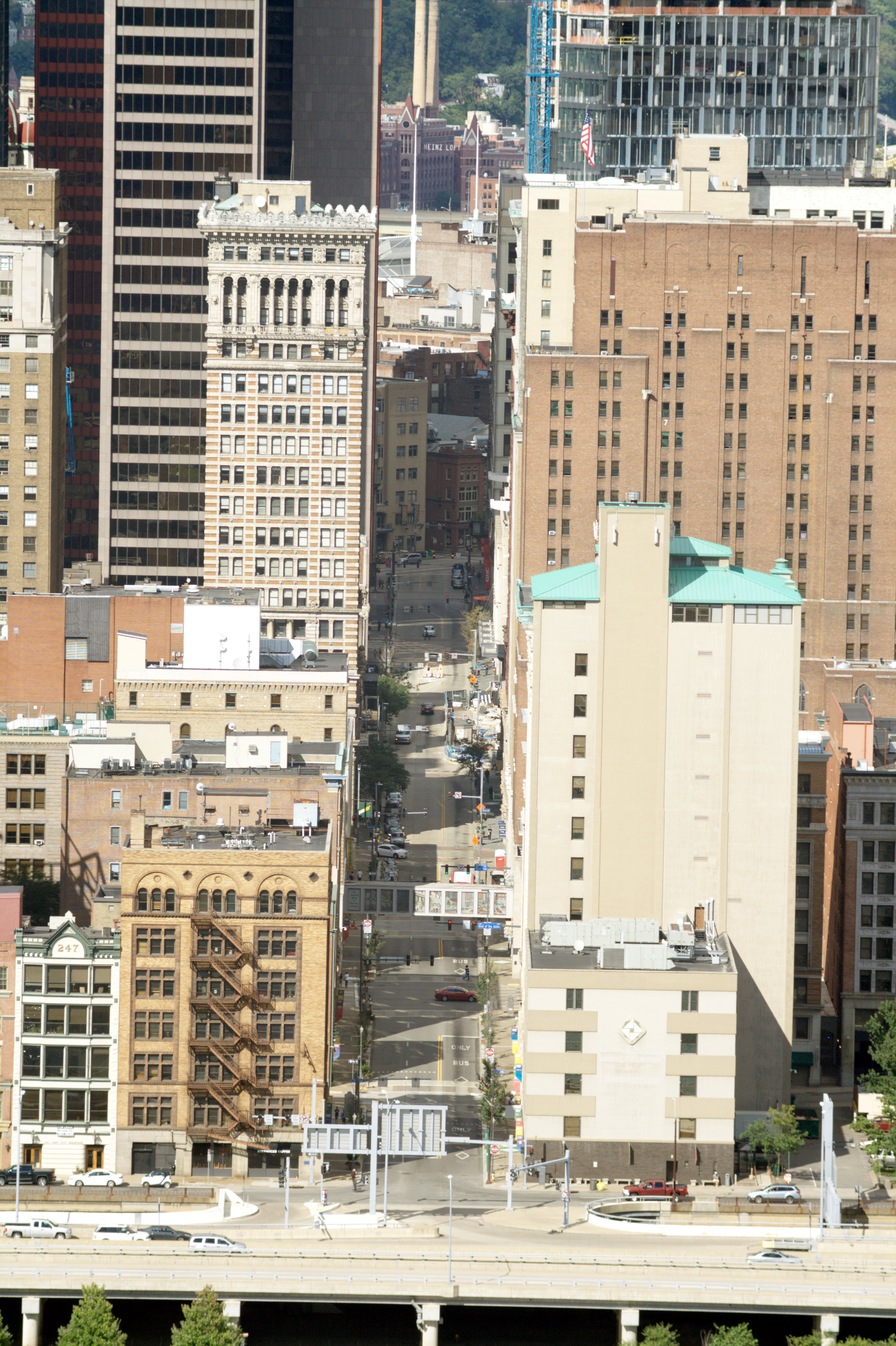 Wood street, Pittsburgh, as seen from Mount Washington.